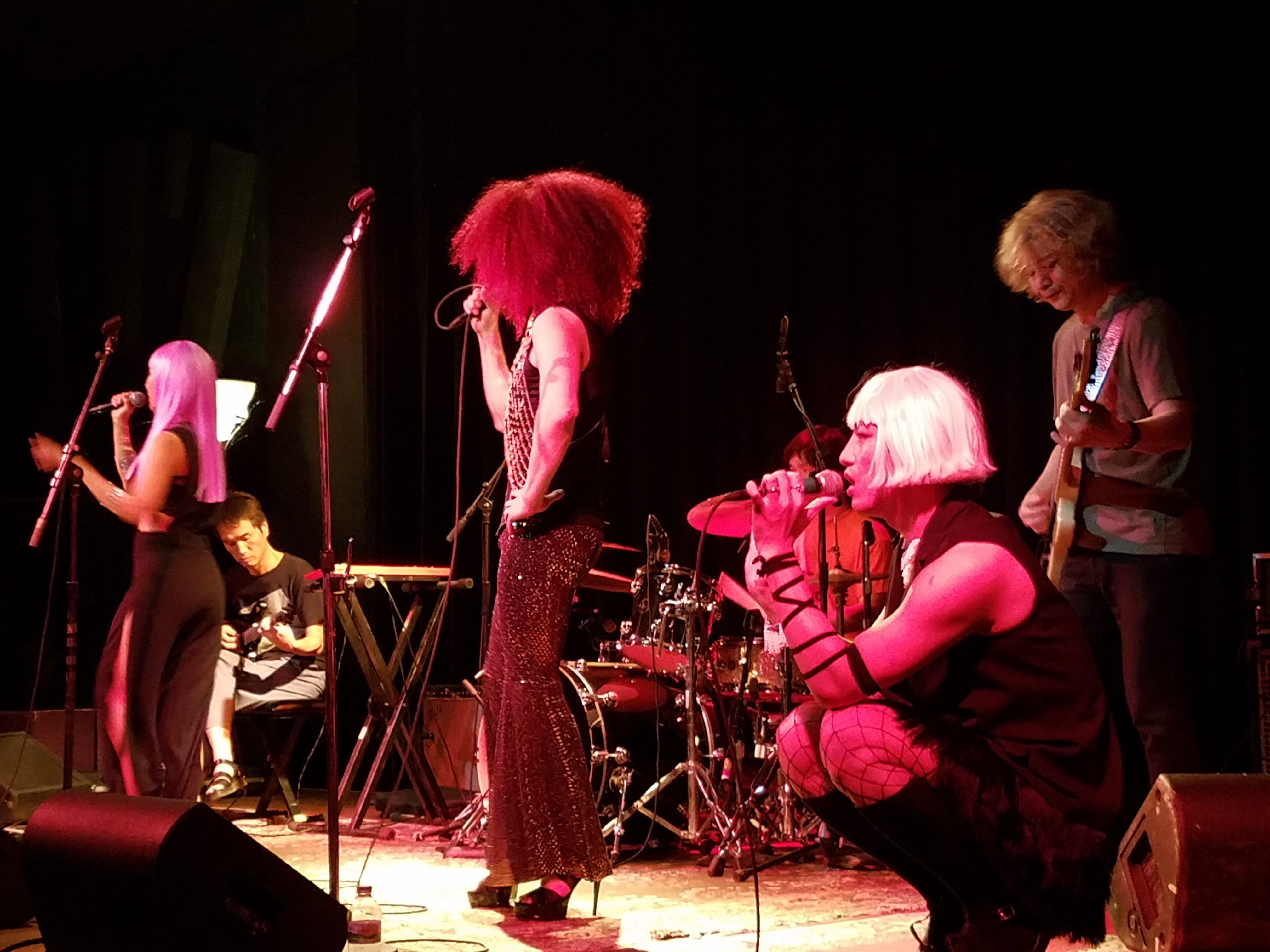 Cedar Cultural Center